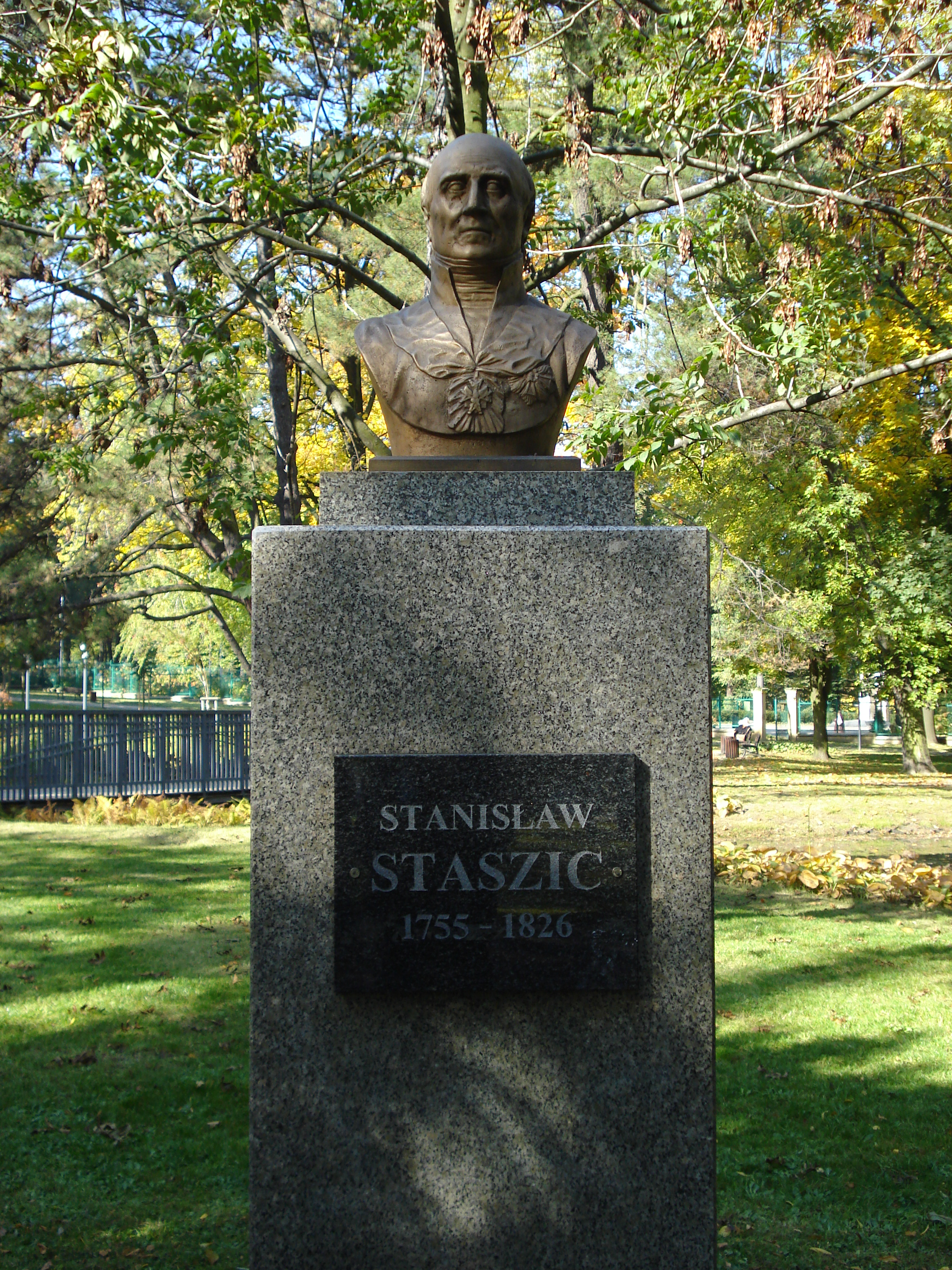 Stanisław Staszic statue in Stanisław Staszic Park in Częstochowa, Poland